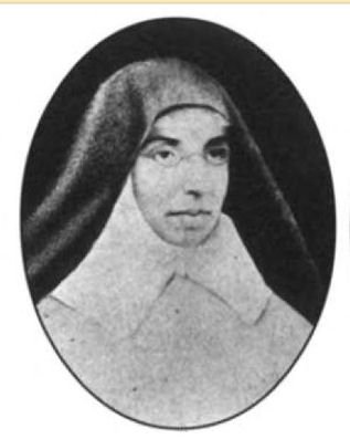 Scanned from a photograph of Mother Mary Clare Moore (1814-1874)